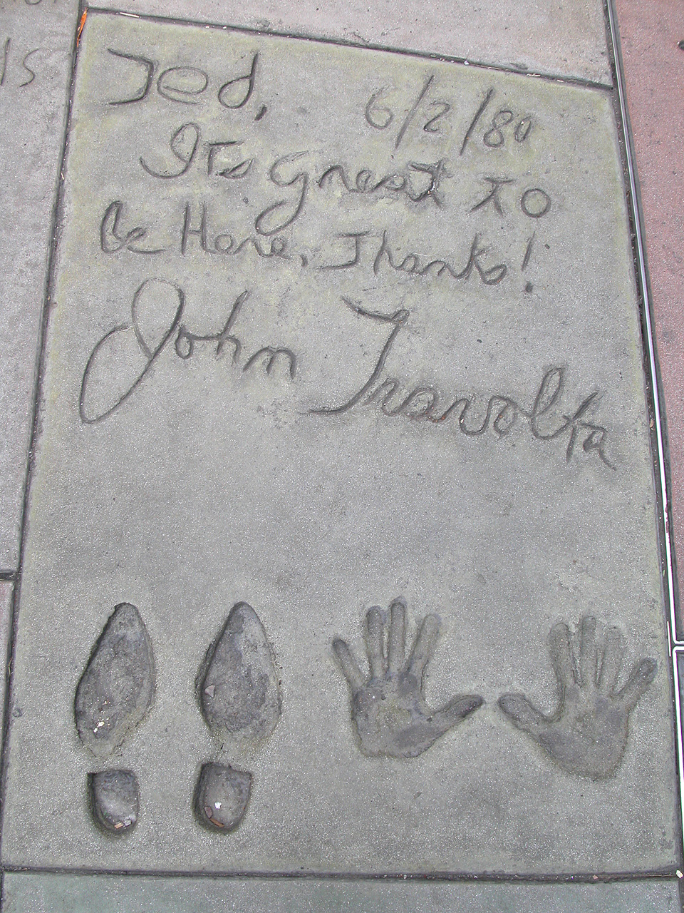 John Travolta's footprints at the Grauman's Chinese Theatre, Los Angeles (California)